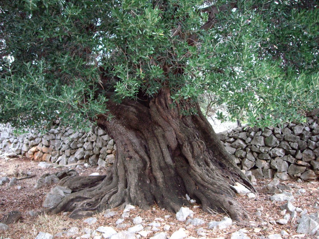 Copyright 2006 Michael R. Davis; Pentax Optio; picture taken near Lun, Croatia, Summer 2006. Provided to wikipedia under the GFDL license.